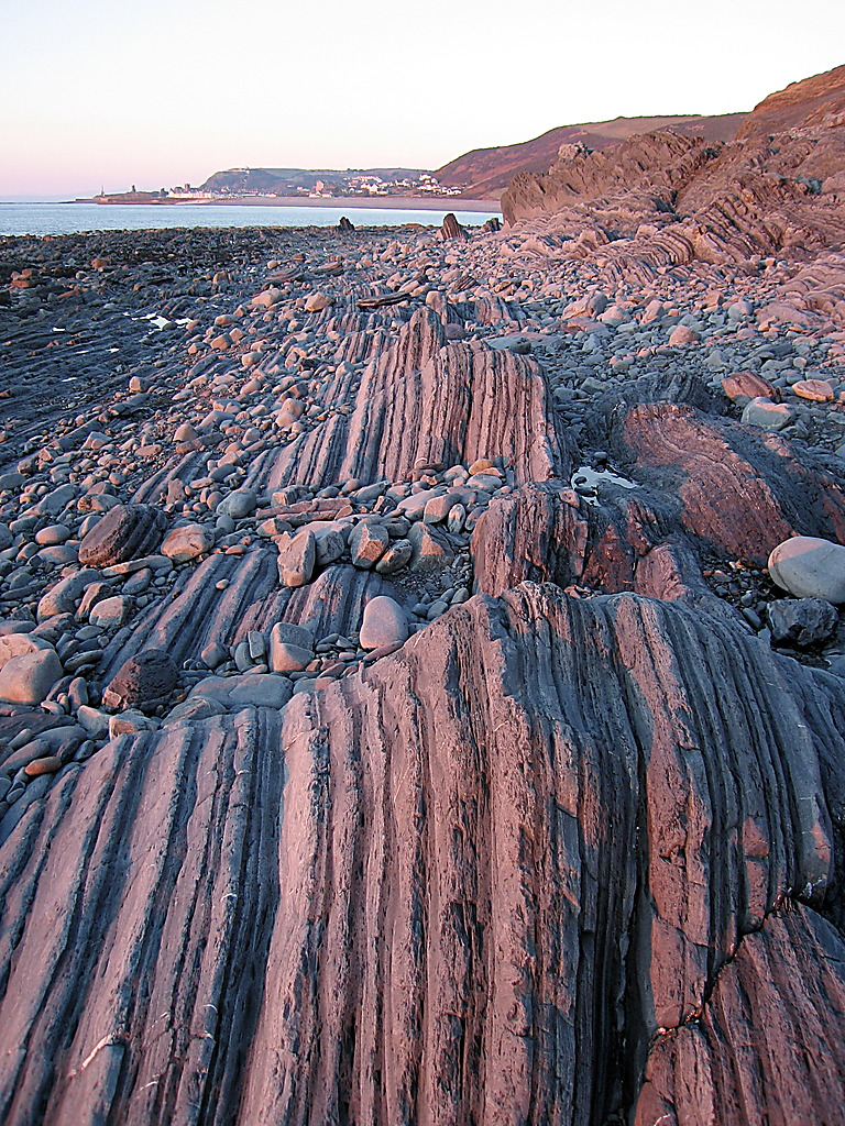 Wave-cut platform below Allt Wen This view along the wave-cut platform shows the vertical alignment of the strata. The rock in the foreground shows how the strata are bent due to the presence of nearby micro-fold axes. Aberystwyth with its castle, South Beach and harbour can be seen in the background. Allt Wen, the northern end of the coastal cliff south of Aberystwyth, is a remarkable geological site. A number of micro-folds only a few metres across with nearly parallel vertical limbs have been exposed on a wave-cut platform at the base of the cliff. The exact sequence of events that have taken place here is still debated, but it is thought that during the Caledonian orogeny 400Ma ago, freshly deposited layers of sediment became pressurised and folded before they were fully lithified and thus more deformable. There are also quartz veins parallel with the bedding in some places. It is thought that they were pressed into the fresh sediment before the folding took place. For more details, see the Geological Conservation Review's site report .